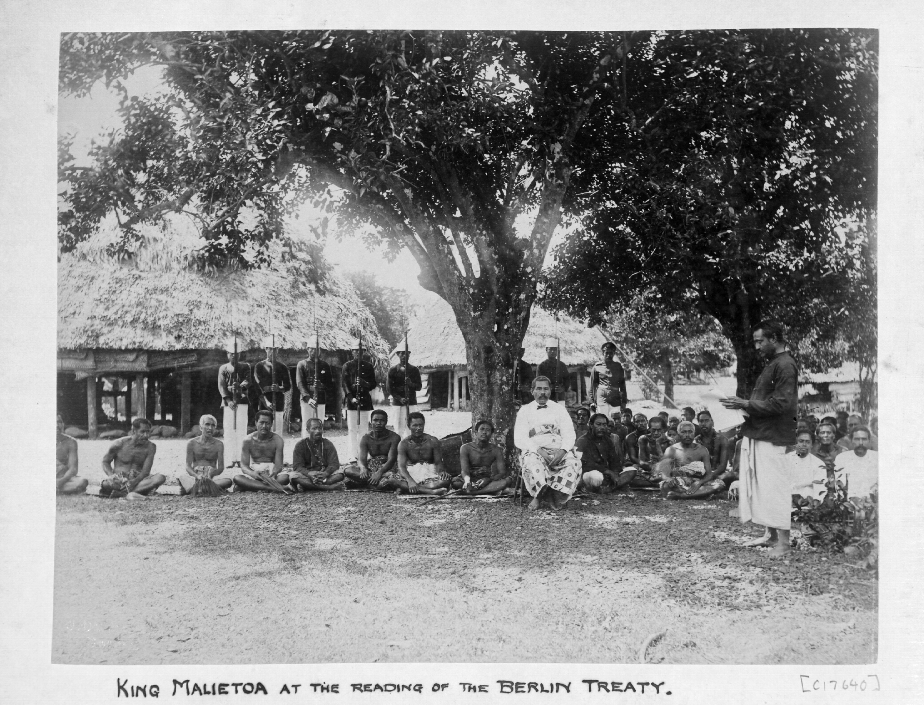 King Malietoa at the reading of the Berlin Treaty (or Berlin Act), 1889 King Malietoa seated with a group of Samoan men backed by Samoan soldiers presenting arms, listening to a Samoan reading the Berlin Treaty Photographic print Reference No. PA1-o-543-40 Photographic Archive, Alexander Turnbull Library